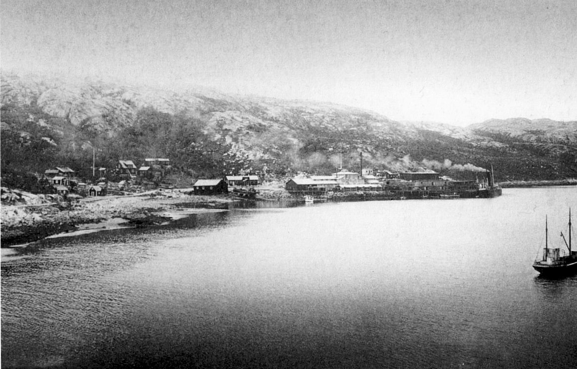 Fish processing factory in Linakhamari, Petchanga, Finland during the late 1930's.